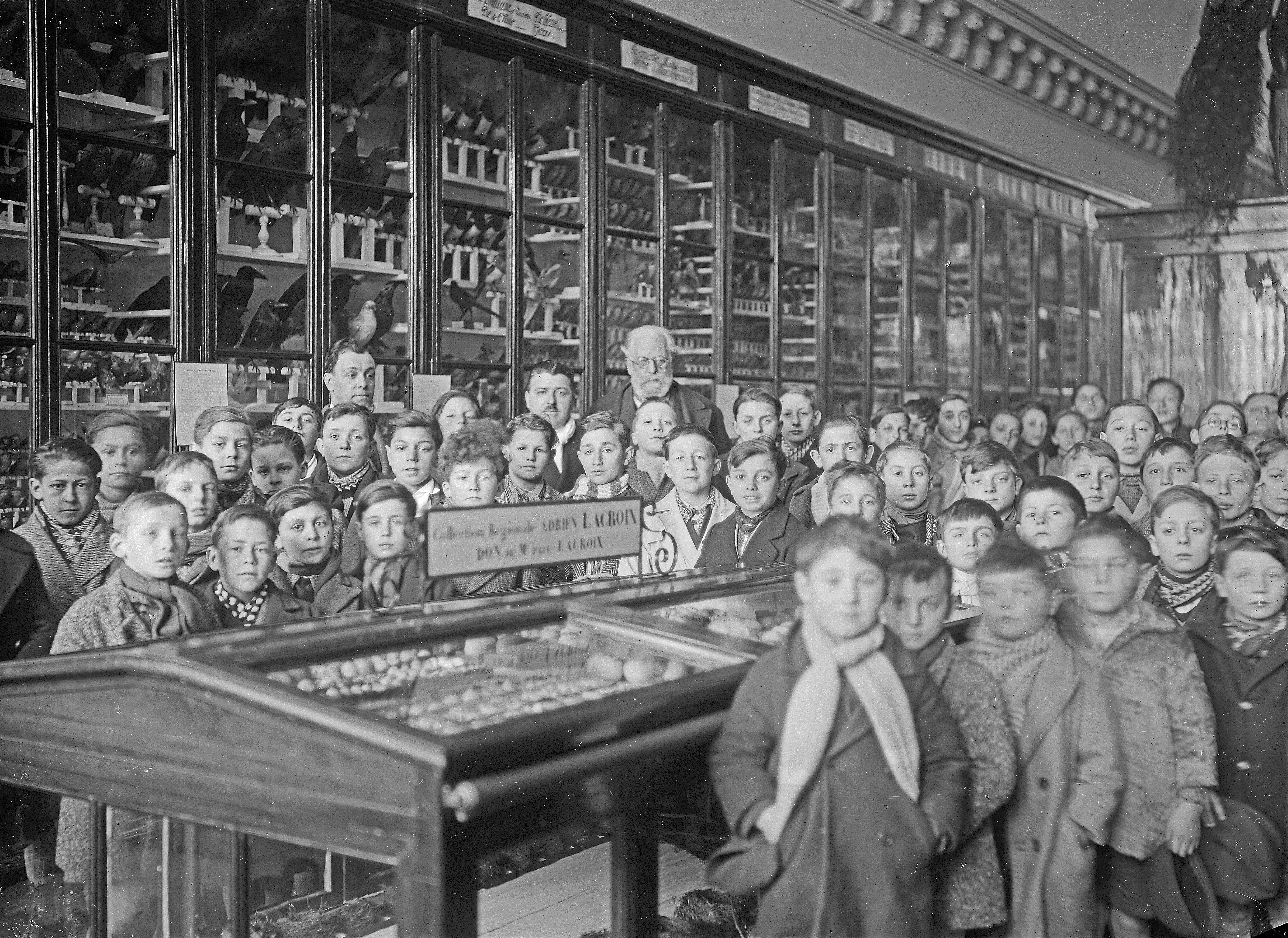 Henri Begouën – French prehistorian (1863-1956) Silver gelatin dry plate negative. Height: 13 cm (5.1 ″); Width: 18 cm (7 ″) dimensions QS:P2048,13U174728;P2049,18U174728 Toulouse Museum, gallery Roquemaurel: Henri Begouen receives a group of pupils from Dr Bach's patronage. Source: Library and Documentation Service Museum of Toulouse